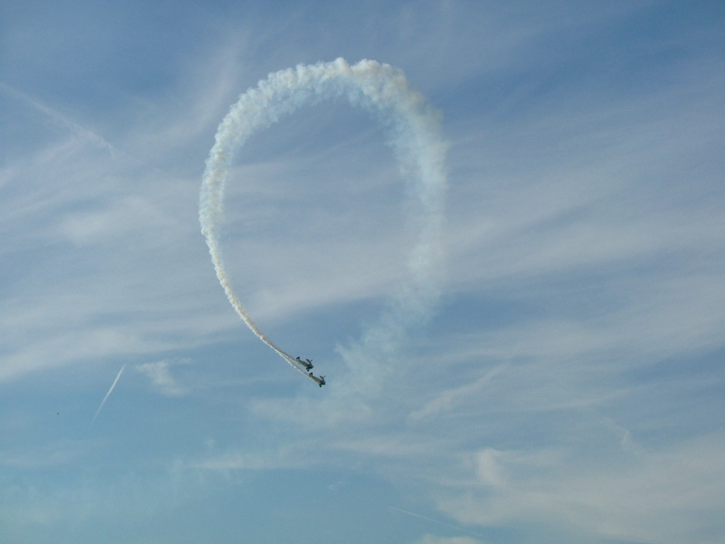 Those magnificent men in their flying machines. Not forgetting the girls on top!